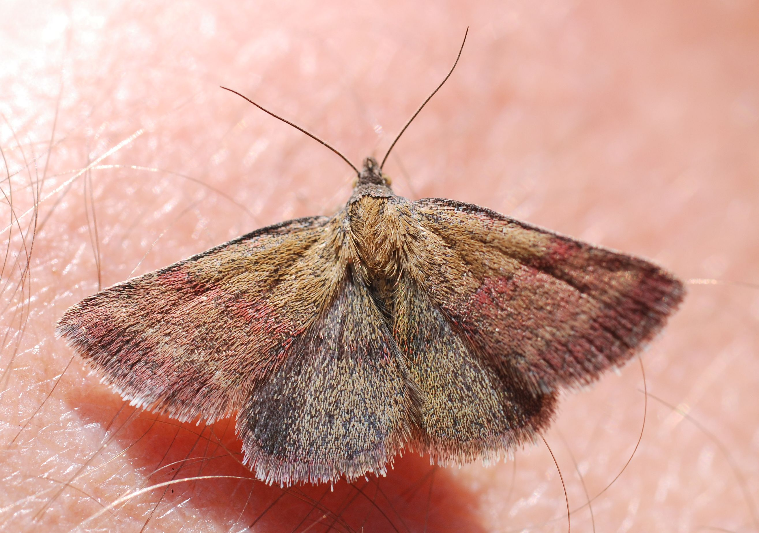 Phytometra viridaria, Hiaslalm ~ 1000 Meter, Upper Austria, Austria